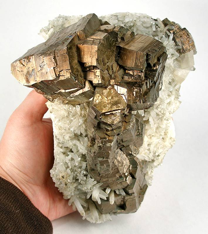 Pyrrhotite, Quartz Locality: Nikolaevskiy Mine, Dal'negorsk (Dalnegorsk; Tetyukhe; Tjetjuche; Tetjuche), Primorskiy Kray, Far-Eastern Region, Russia (Locality at ) Size: large cabinet, 18.6 x 14.3 x 12.3 cm Pyrrhotite on Quartz This incredible large specimen is the finest large pyrrho I have seen since handling the well-known "Freilich specimen," from Sotheby's, in 2001. That piece was bigger, but this one is more elegant and significant because of the larger size of the pyrrhotite clusters. And I have seen a lot of them! The piece has stark , 3-dimensional clusters leaping off of crystallized quartz matrix. Despite the massiveness of the pyrrhotite clusters, their bright brassy color and curving form give them an elegance that a similarly sized galena or sphalerite would not have. the piece looks almost biological, with "snakes" of golden pyrrhotite "climbing" up the matrix to jump off the top like lemmings. The specimen is complete on all sides but the back, where it is naturally contacted. It was mined in 1996, I am told. On the whole specimen, there are just a few small spots of edge wear and thats it. It is nearly pristine, remarkable given the size and composition. Here is a world class example of the species, at a frankly bargain price. But, I got it cheaply, myself, so....